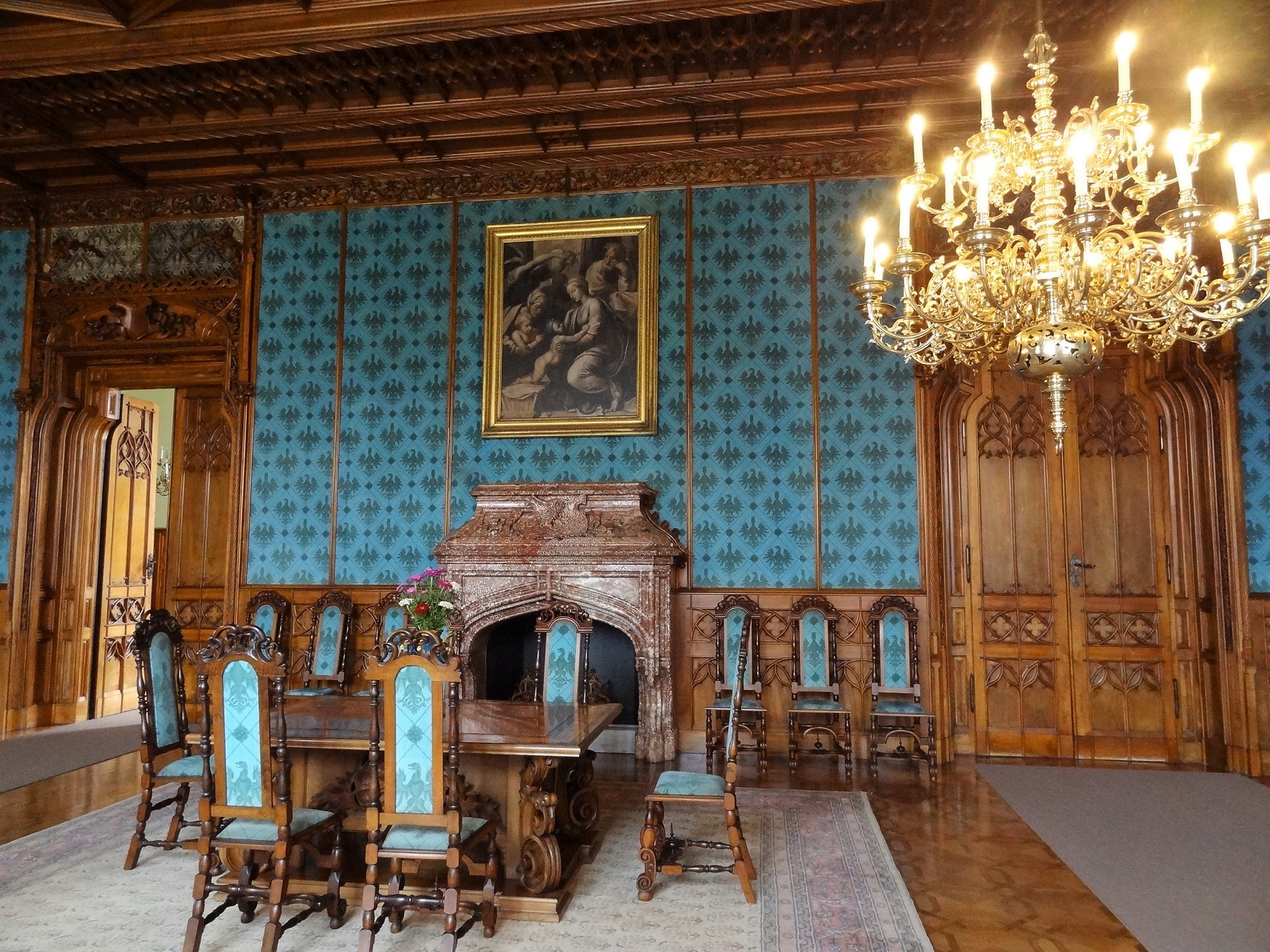 Lednice Castle interior